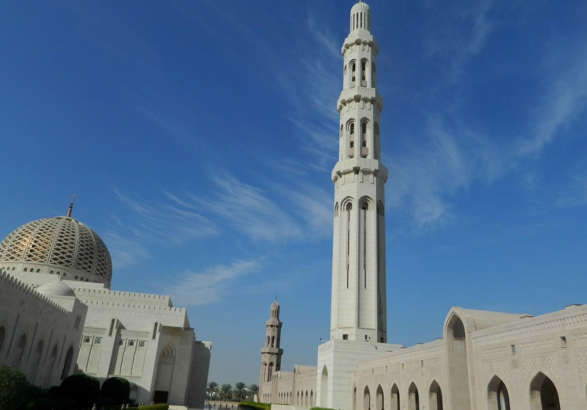 Sultan Qaboos Grand Mosque in Muscat, Oman